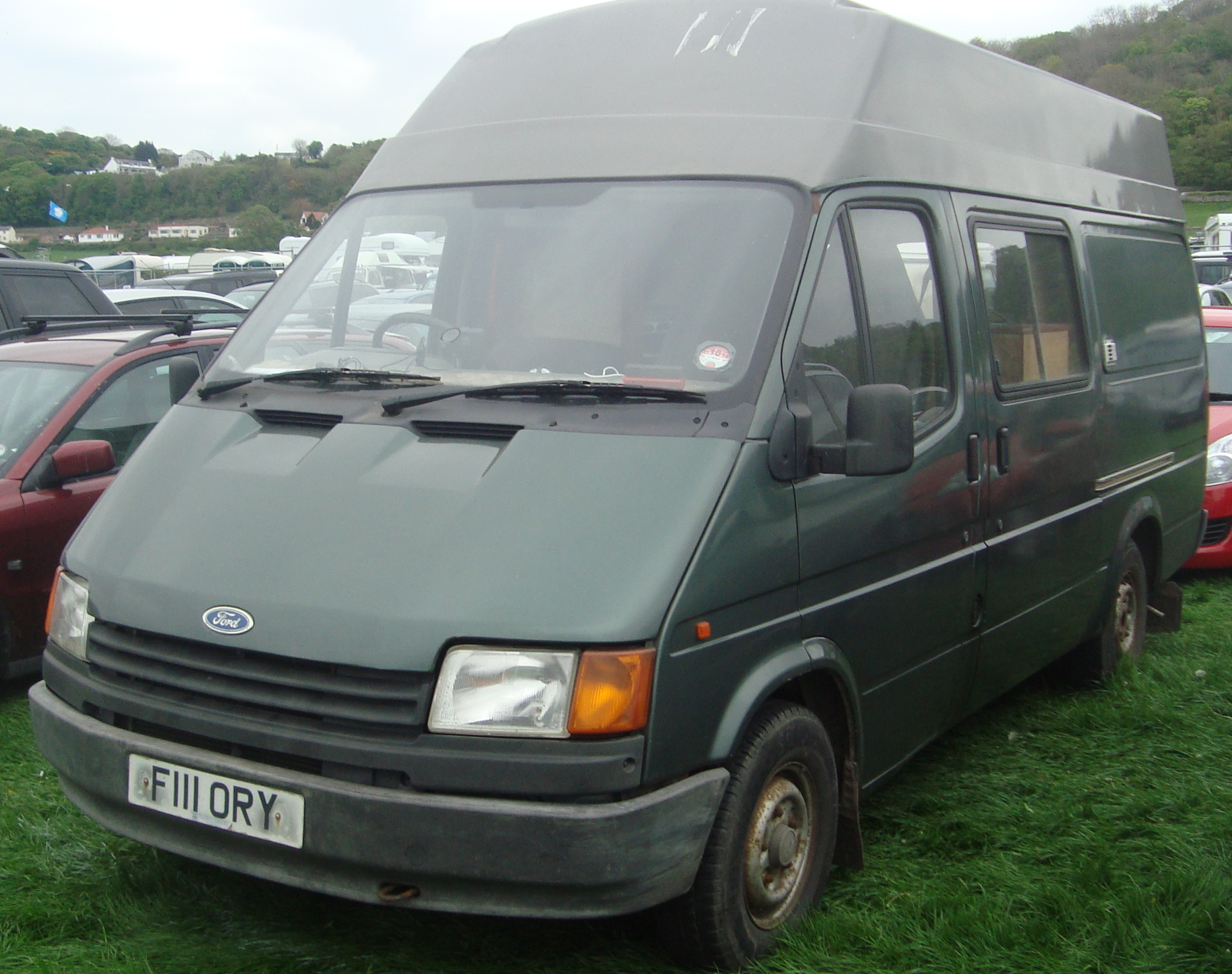 1989 Ford Transit 190